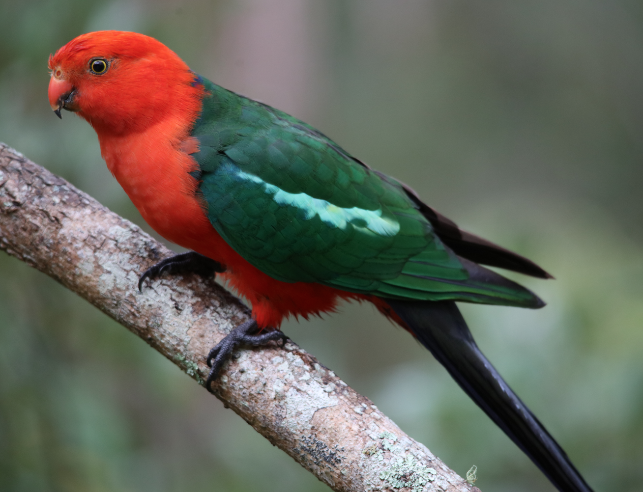 Australian King Parrot (Alisterus scapularis). Male. Shot with Canon 5DS + Sigma 150-500mm lens.